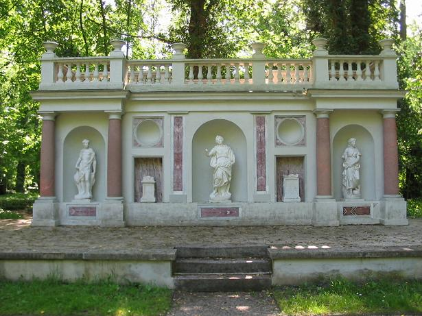 Statues of Ganymed, Fides, and Minerva at the park of castle Blankensee, Brandenburg, Germany